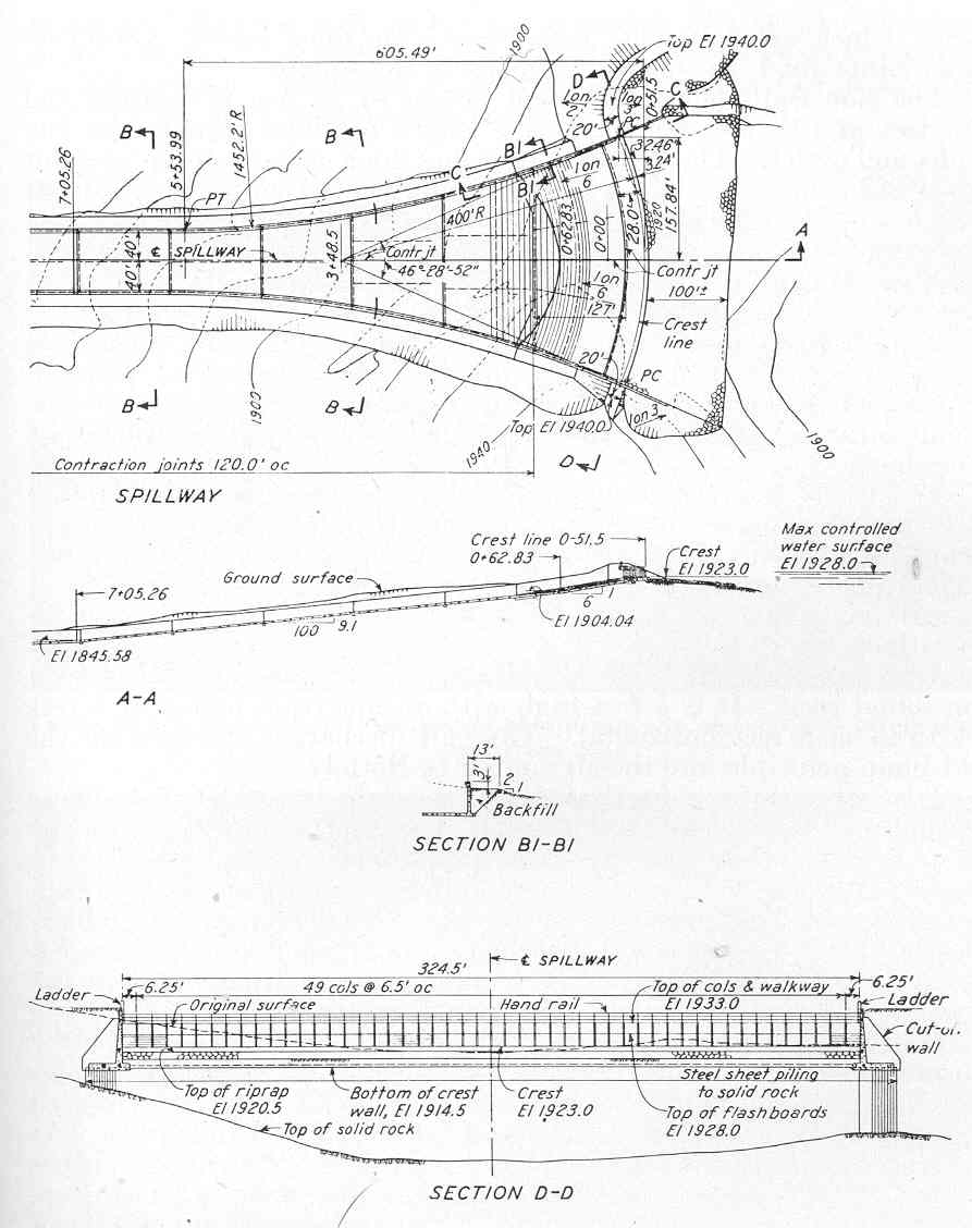 TVA's design plan for Chatuge Dam, which impounds the upper Hiwassee River in Clay County, North Carolina, USA.